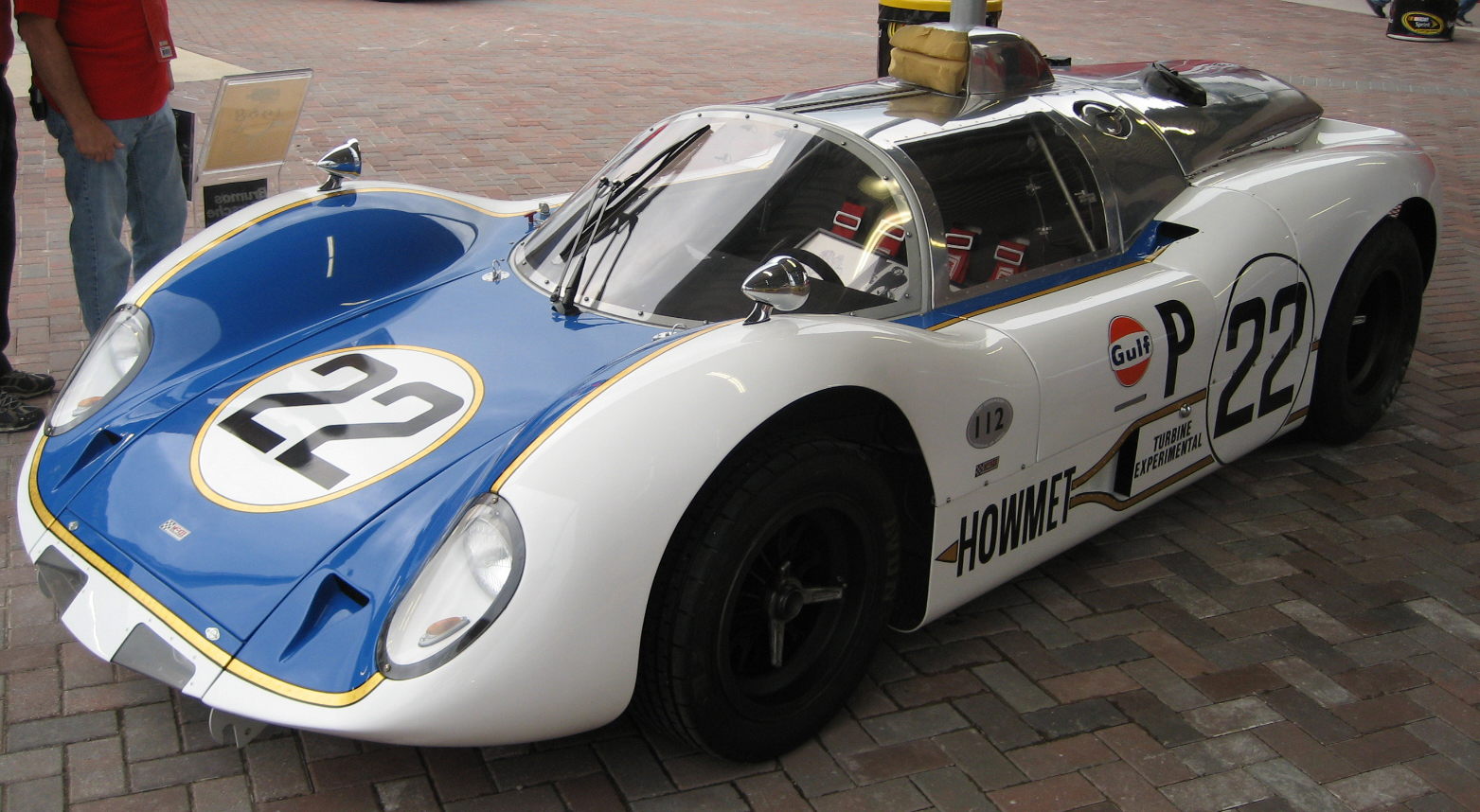 A Howmet TX turbine sports car. Built by McKee Engineering (McKee Mk.9). Chassis TXGTP3.